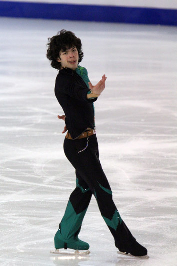 Keegan Messing at the 2010 World Junior Figure Skating Championships